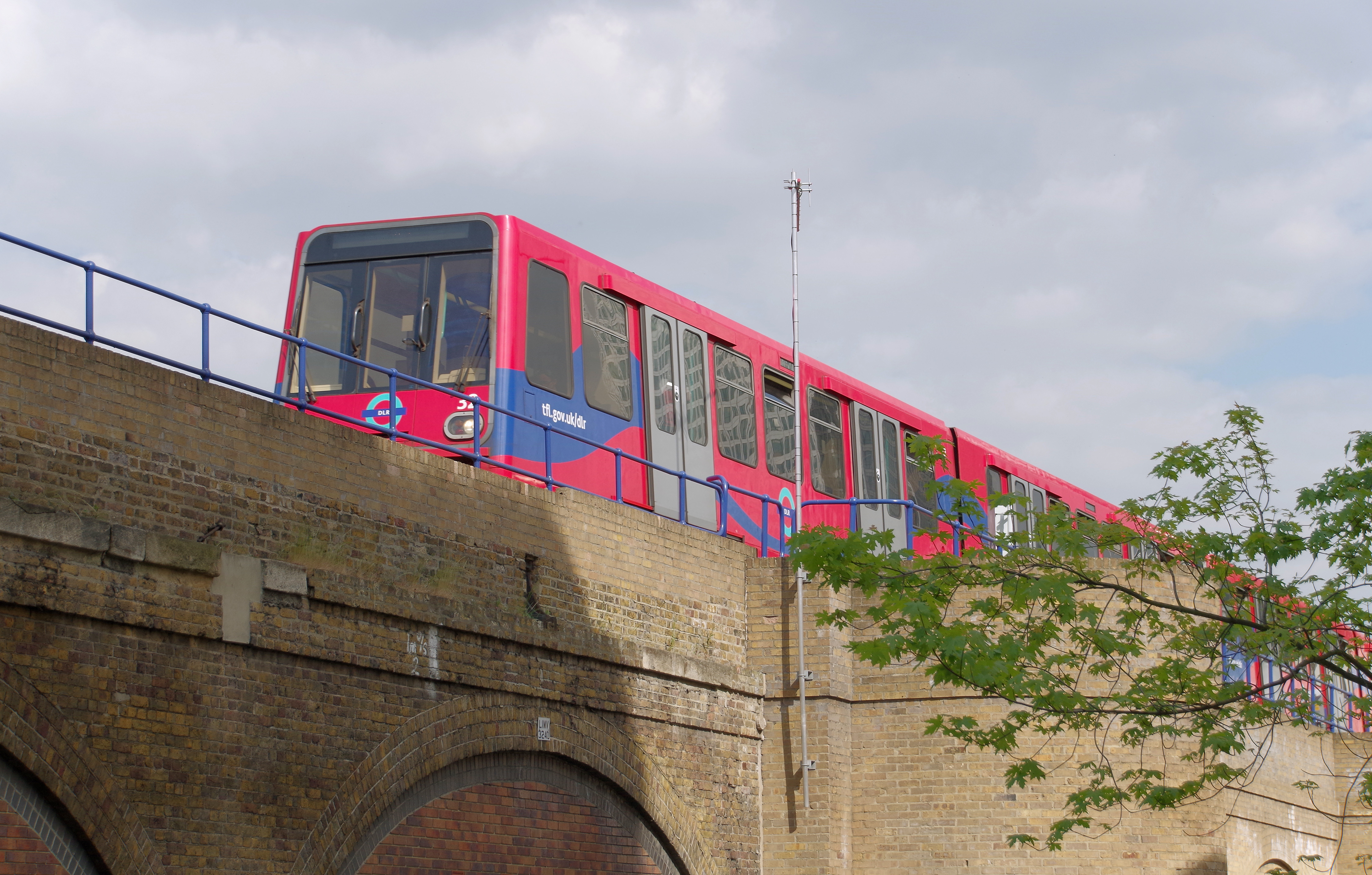 A westbound DLR train approaches Westferry station.